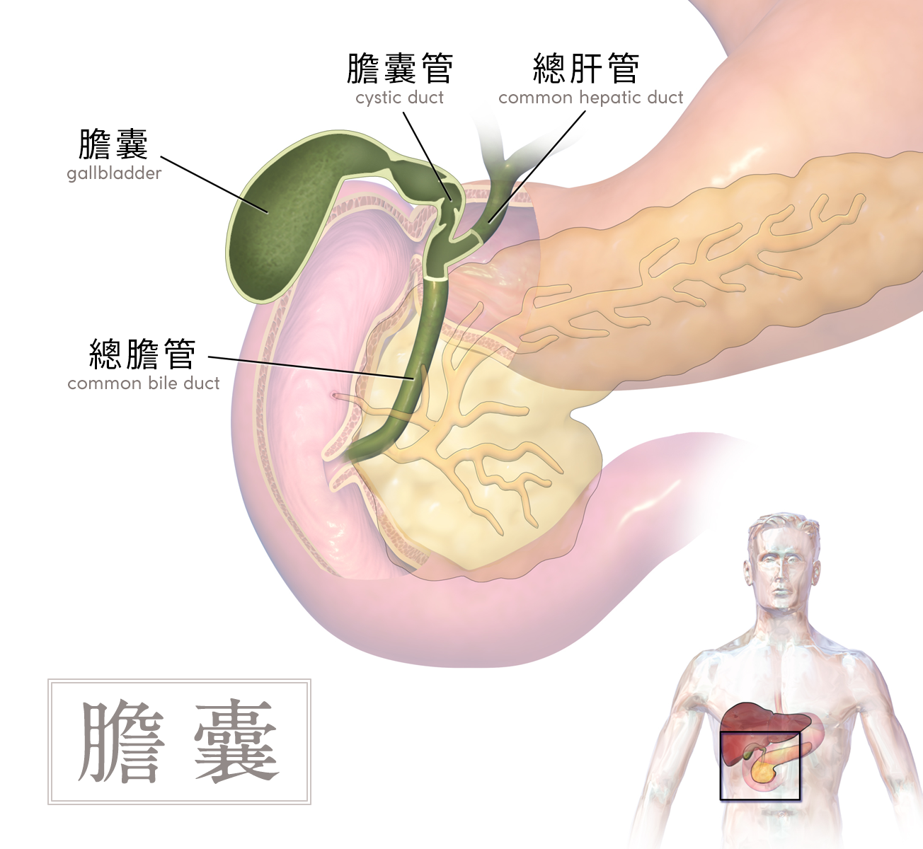 Gallbladder. See a full animation of this medical topic. 中文（台灣）: 膽囊構造概要